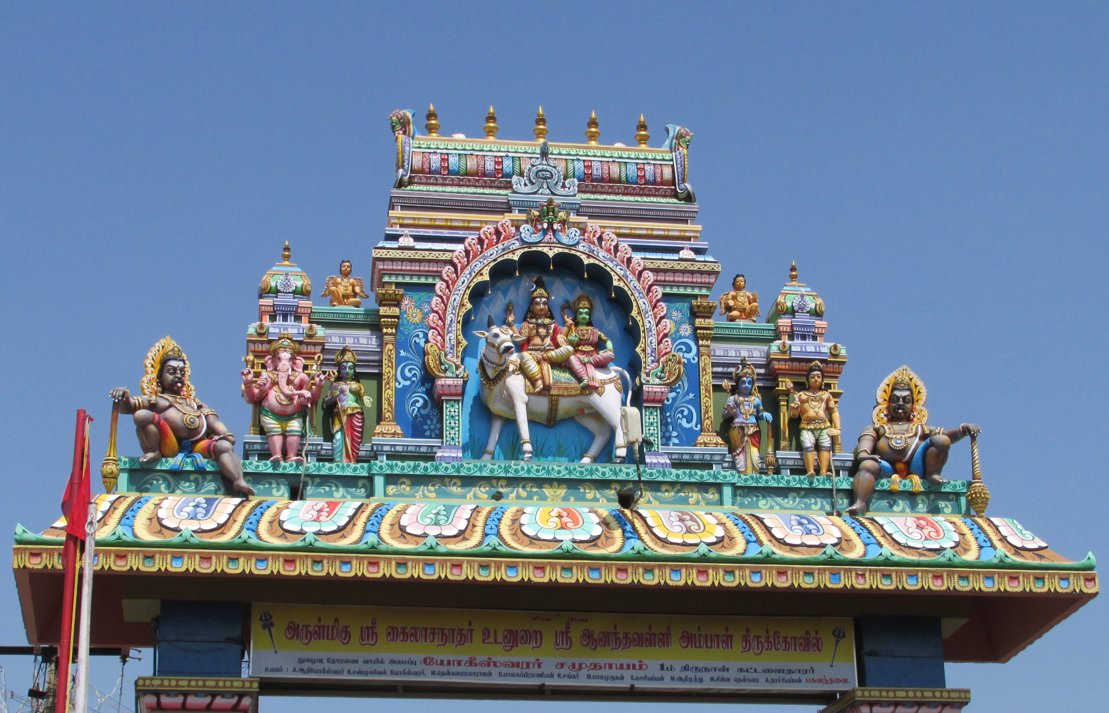 Pasuvanthanai kailaasanathar temple arch at the entrance of the temple street